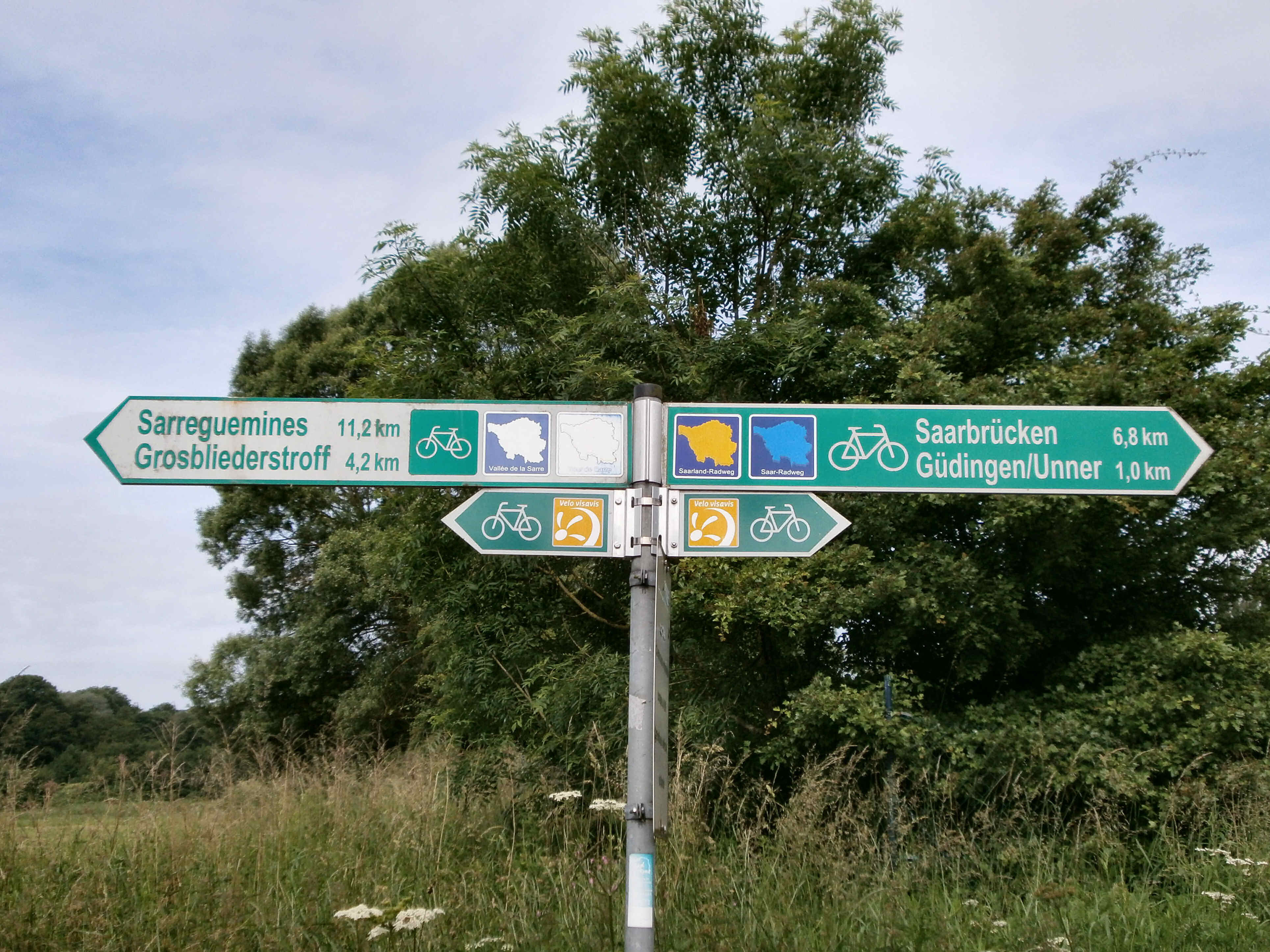 Cycling Route Sign Post at the German-French Border